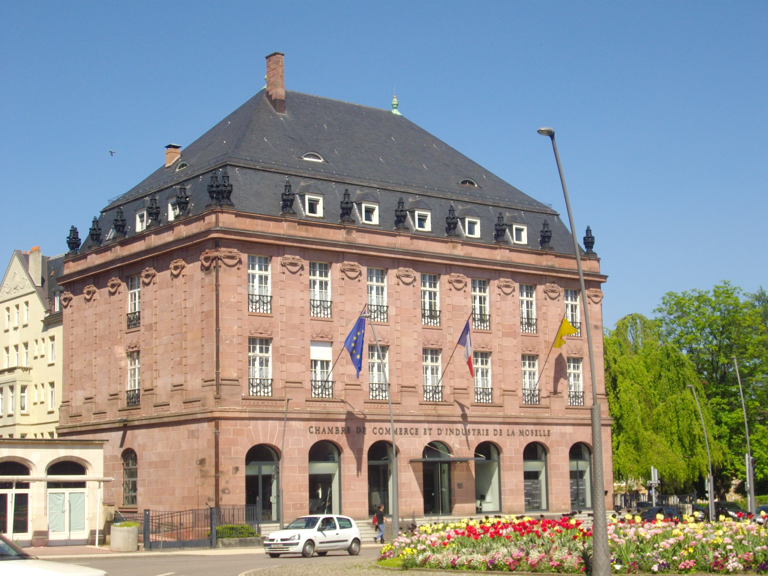 Chamber of Commerce and Industry of Moselle in Metz (Moselle, France)